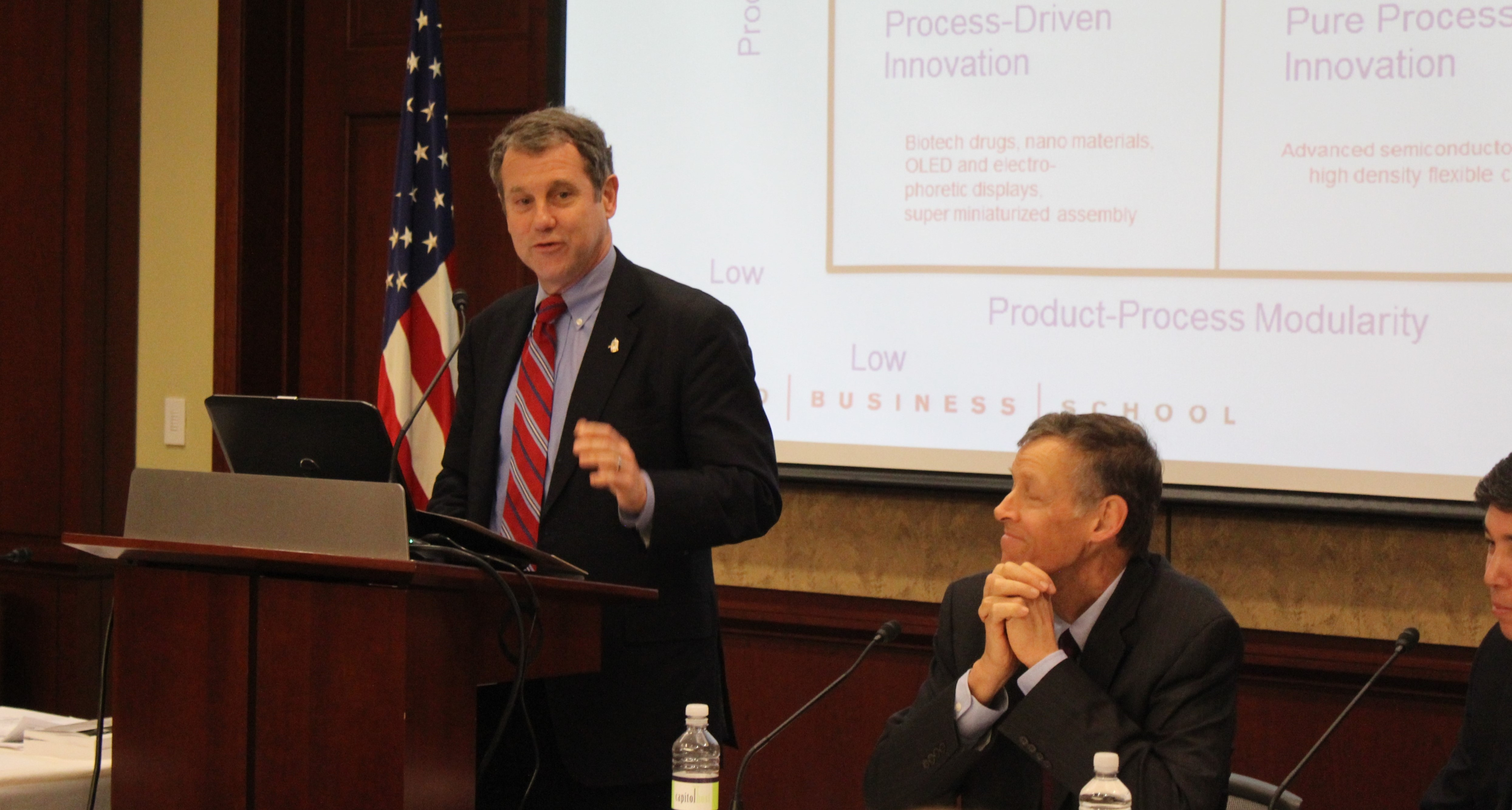 Discussion of the causes, evidence, and consequences of faltering U.S. competitiveness.